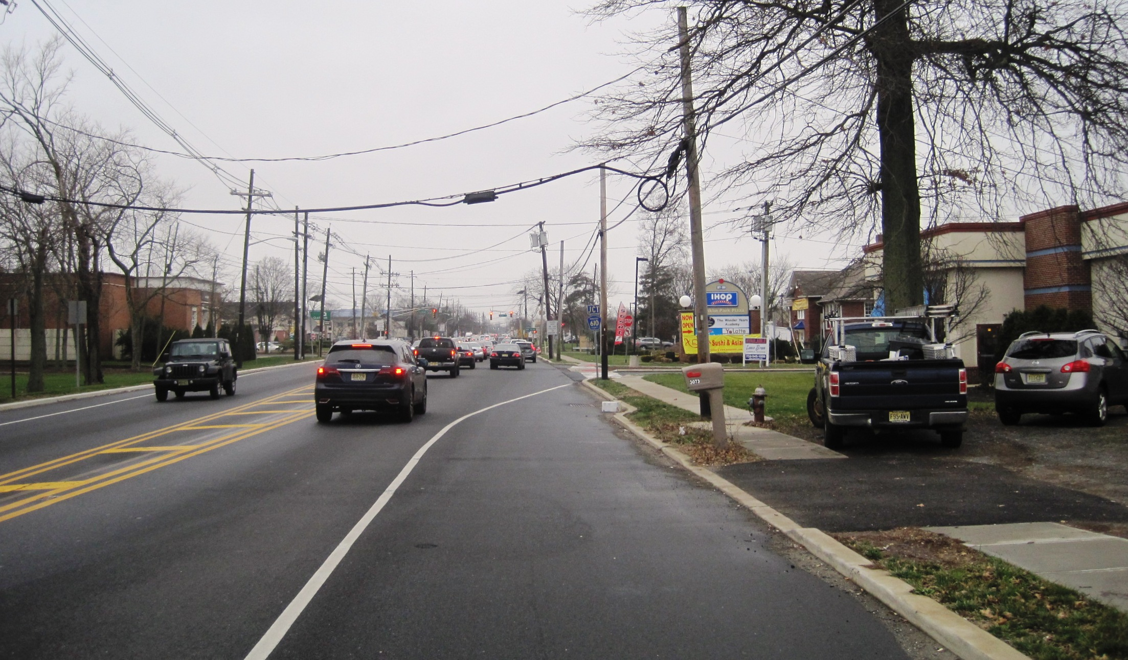 Photo of the census designated place of Franklin Park, New Jersey within Franklin Township, Somerset County (this side of road), and South Brunswick and North Brunswick (former on left side of road, latter not pictured) in Middlesex County. Photo taken on southbound New Jersey Route 27 approaching Henderson Road (County Route 610).